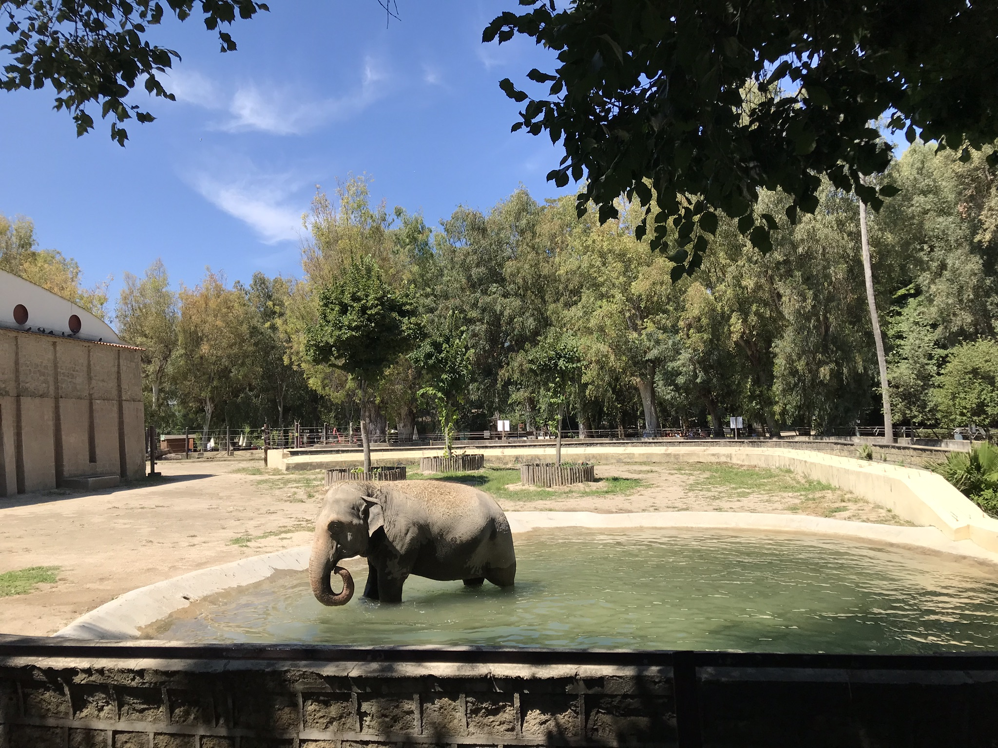 An elephant playing with water in a hot day, on the Napoli zoo, Italy.